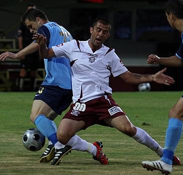 Juliano Spadacio playing at Rapid Bucharest.